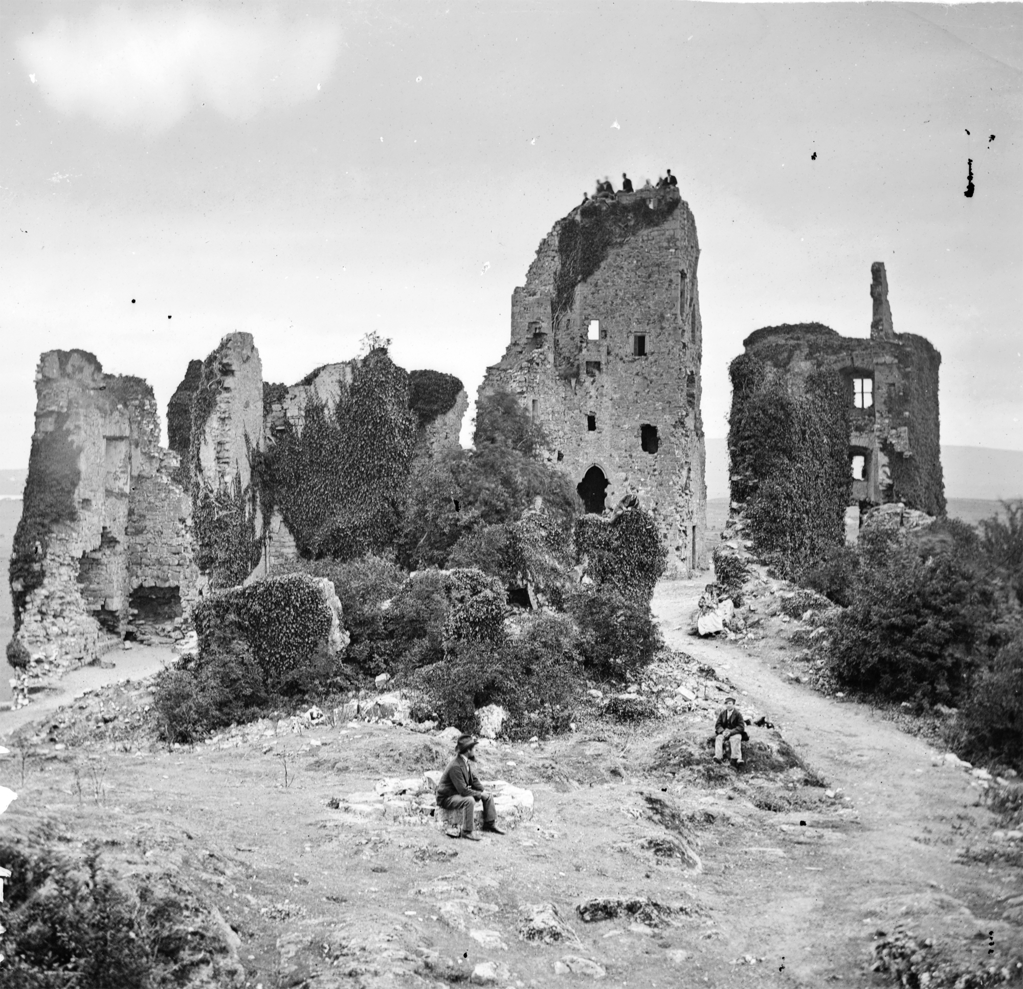 Far be it from us at Library Towers to let people rest on their laurels, and as our original fiendish Mwahaha (evil laughter) was finally solved yesterday after 10 months, I had hoped to challenge you today. All we had as a description was "Ruin tower and house adjoining other walls, people". Had hoped it'd prove a tad challenging, but 'twas not to be. Thanks very much to blackpoolbeach for identifying these ruins as Carrigogunnell (also Carrigogunnel) Castle! Either way, also like this image for the spooky way that people seem to loom out of the background when you peer into all corners of it really carefully... Date: 1860-1883 NLI Ref.: STP_1857 Individual items in the Stereo Pairs Collection are catalogued under call no. STPA, title and subject The Stereo Pairs Photograph Collection was acquired by the National Library with the Lawrence Collection, though it has always been considered a separate collection as the images cover an earlier period than the main Lawrence Collection, are a different format and were not created by the Lawrence firm. The stereographic negatives in the collection were the work of Dublin photographers James Simonton and Frederick Holland Mares and were acquired, probably purchased, by John Fortune Lawrence, a brother of William Mervyn Lawrence. They were printed and marketed by William Lawrence until the popularity of stereos waned in the 1880s. Physical description: 3,059 stereographic negatives : glass ; 9.5 x 17 cm. Citations/References: Ireland 1860-80 from Stereo Photographs. (National Library of Ireland Historical Documents). -Dublin: National Library of Ireland, 1981. 25 I. Citations/References: "Into the Light: an Illustrated Guide to the Photographic Collections in the National Library of Ireland" by Sarah Rouse, p. 84 Indexes: Unpublished NLI catalogue of Stereo Pairs Photograph Collection available at reading room counter